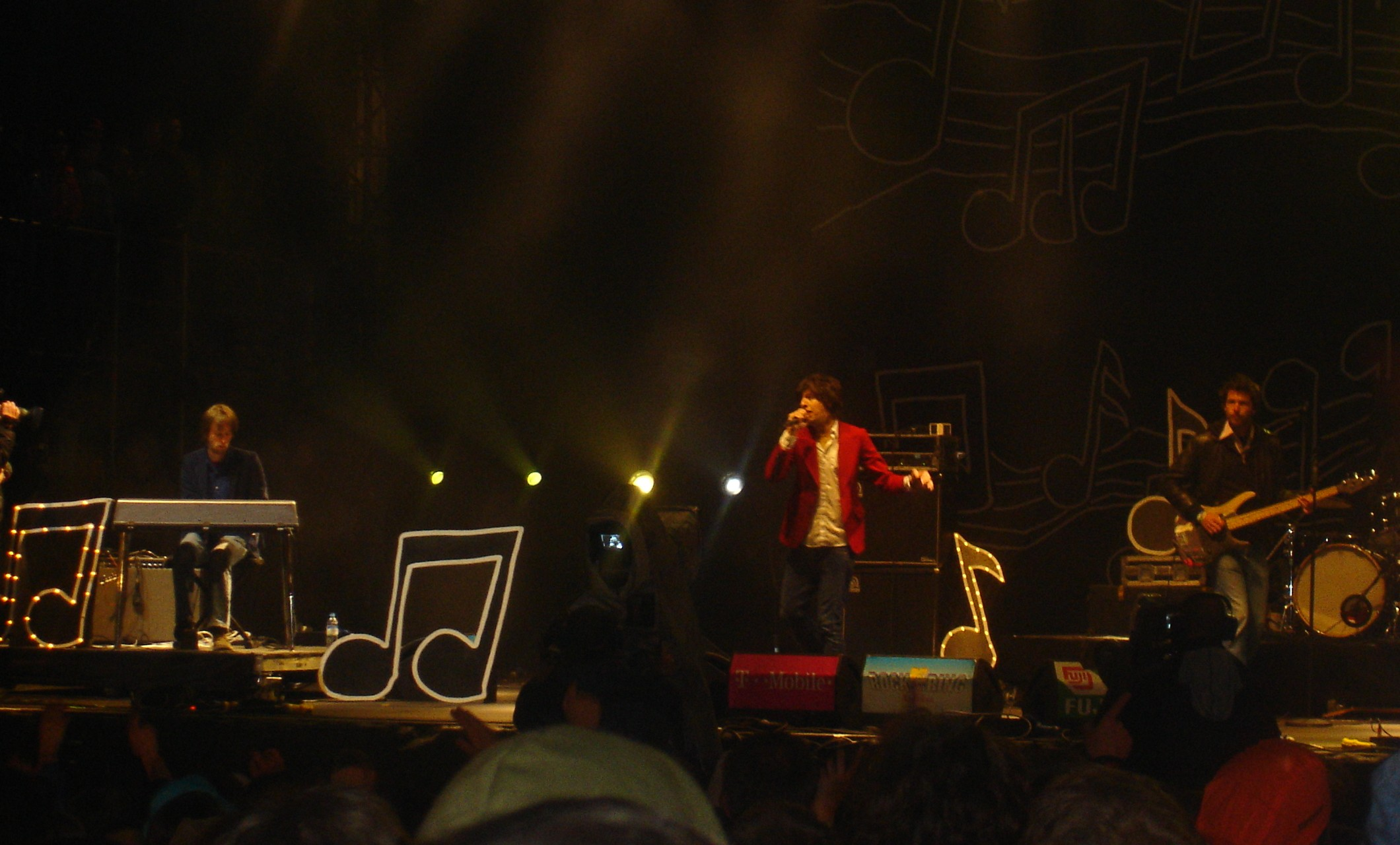 Adam Green at Rock am Ring 2005.